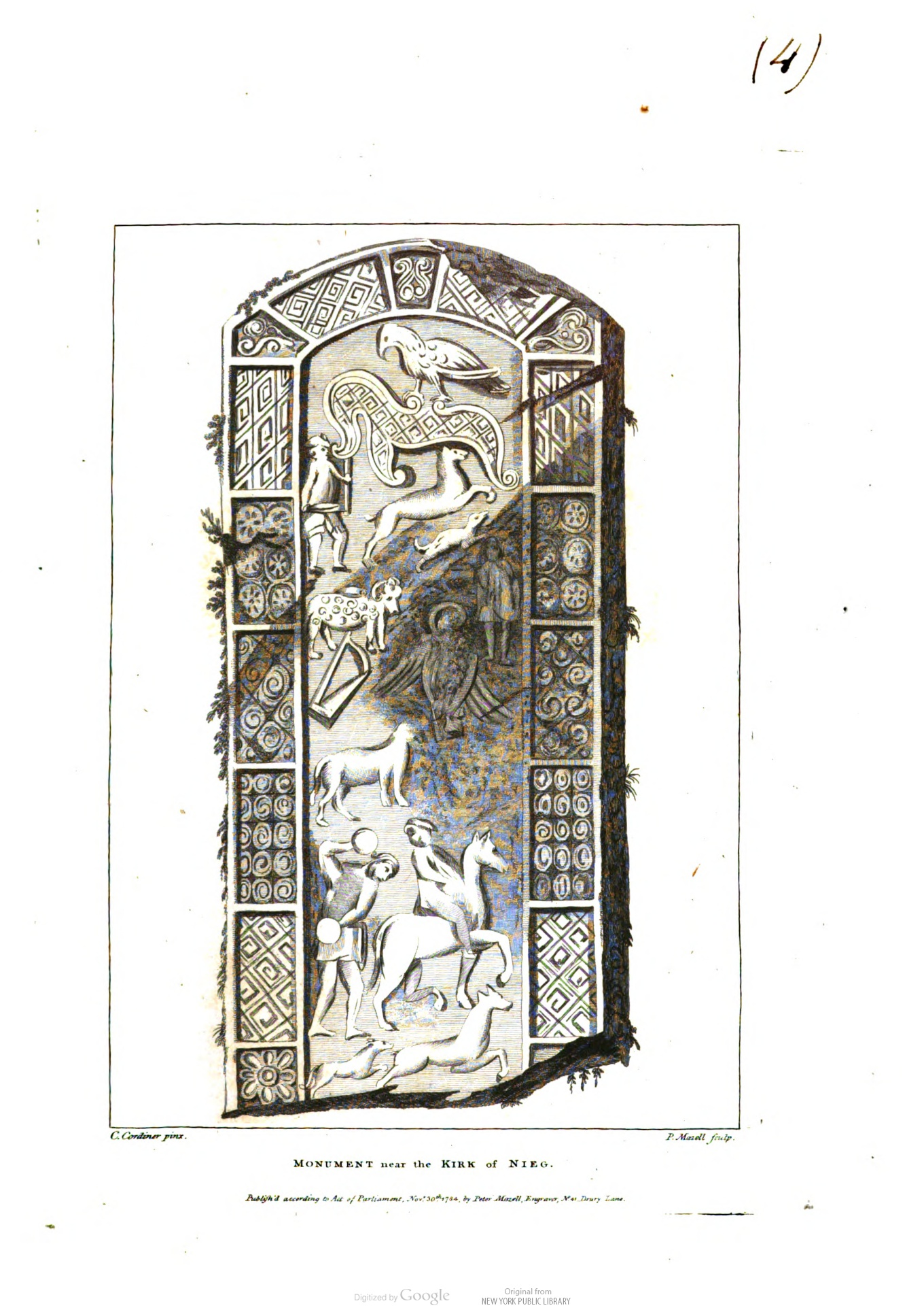 Nigg Stone, pictish symbol stone and cross lab. Drawn by Charles Cordiner, engraved by Peter Mazell, published 1788